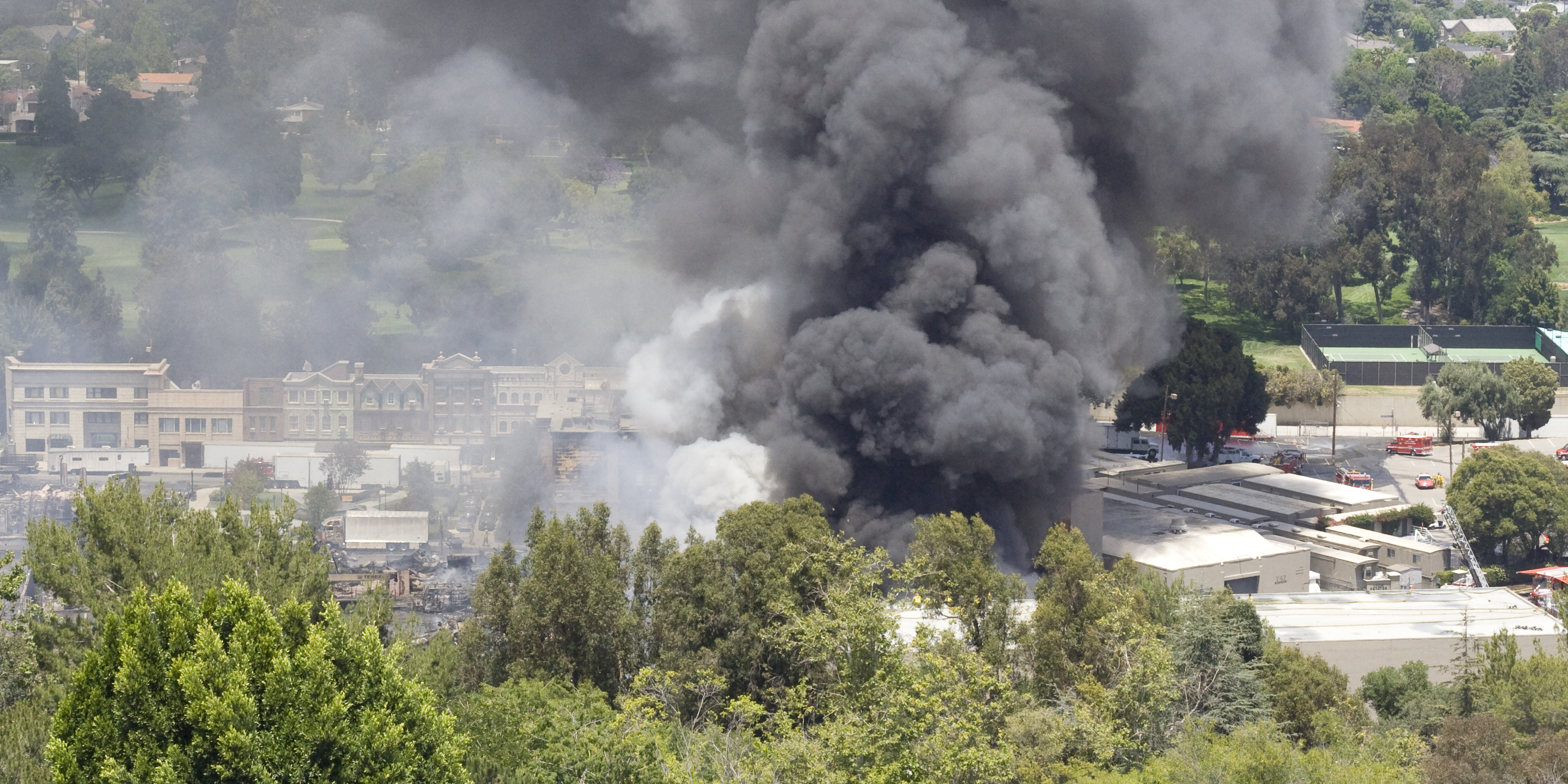 Smoke at the scene of the Universal Studio Fire, June 1, 2008